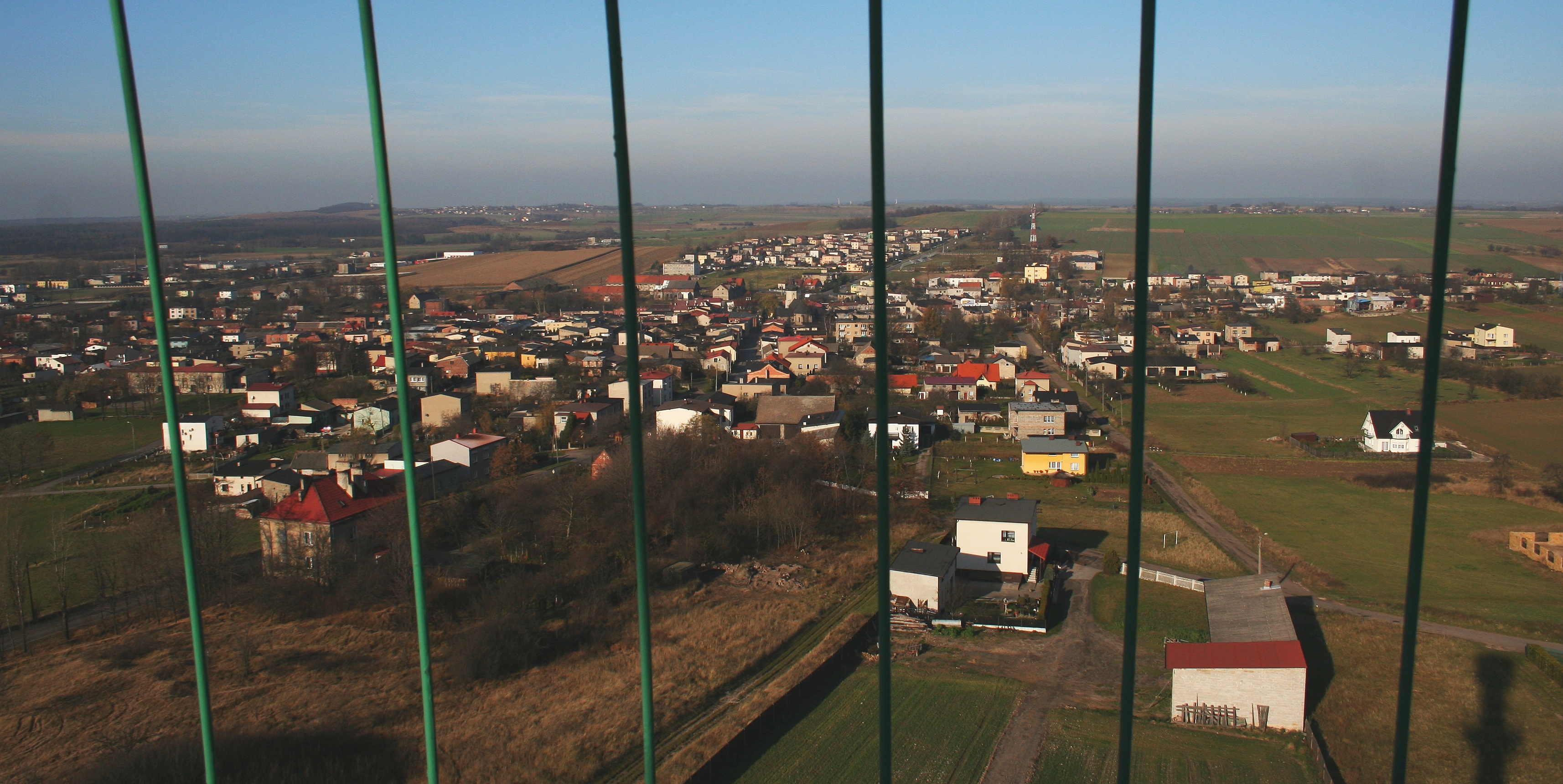 Panorama of Woźniki, Poland